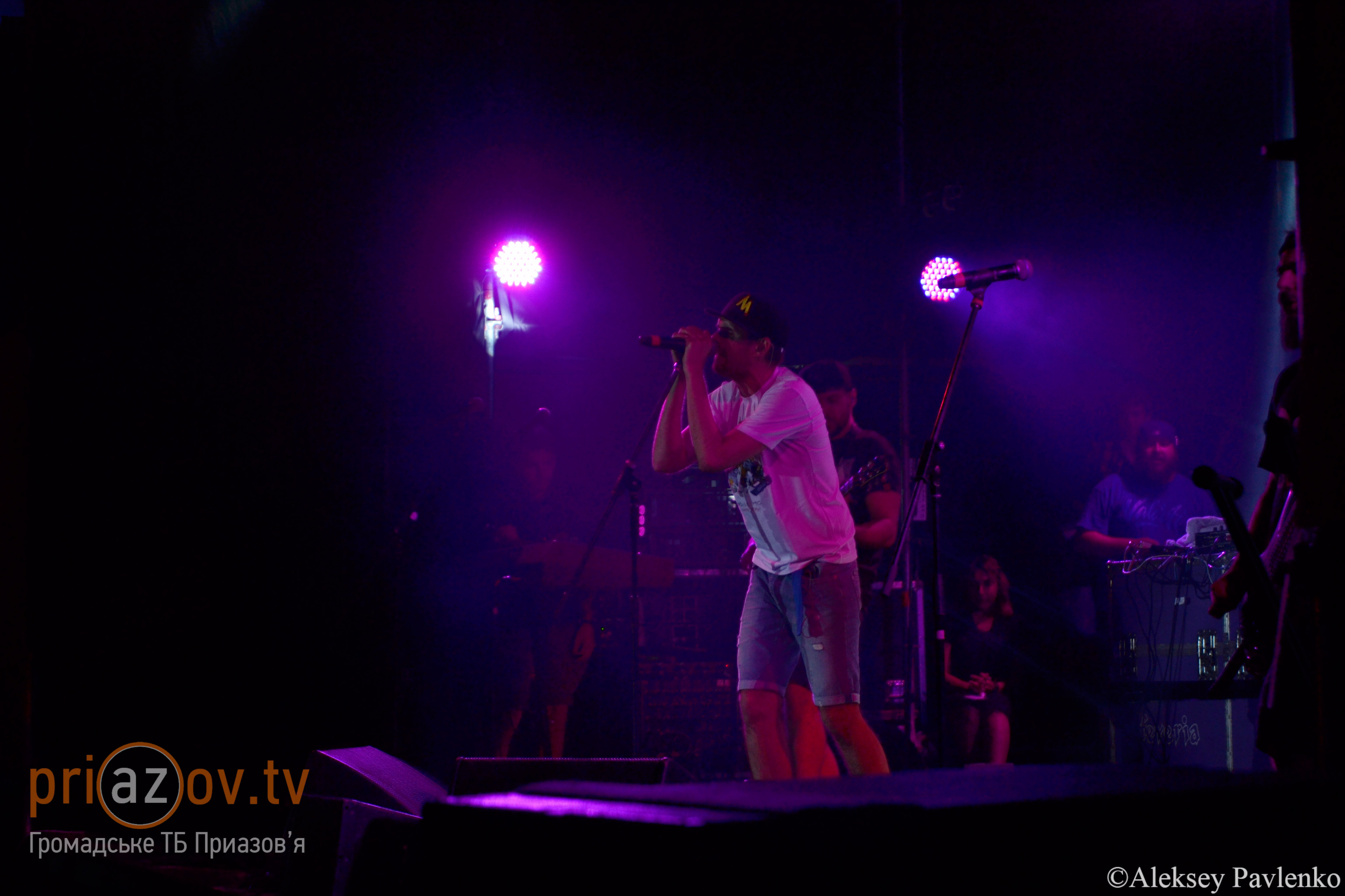 Russian rapper Noize MC at the MRPL City 2017 fest in Mariupol.